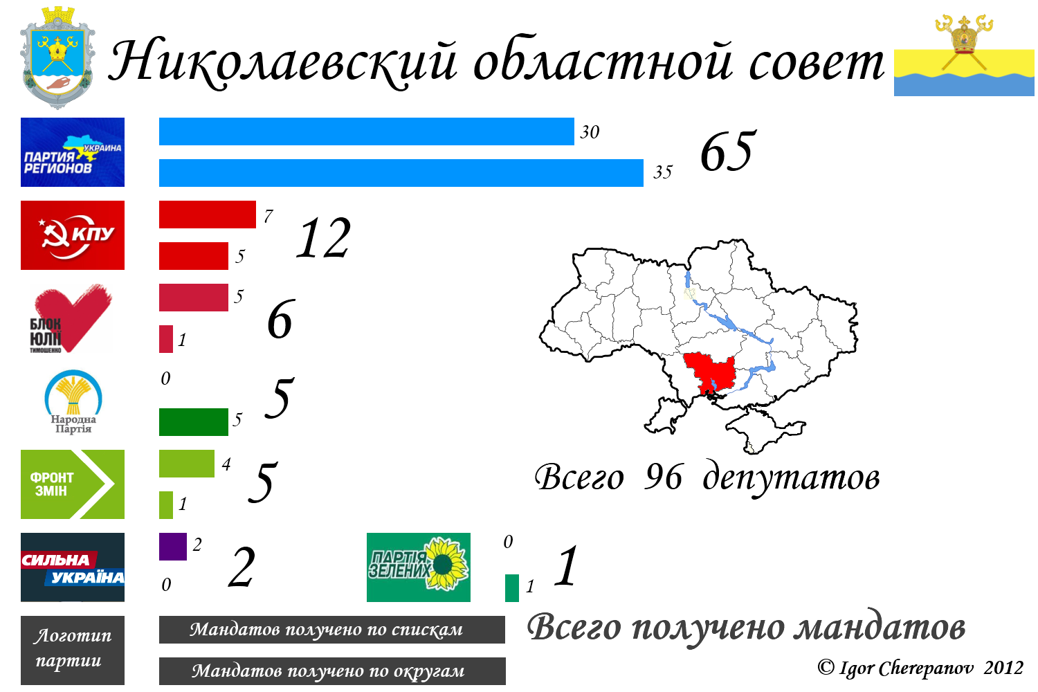 Results of Nikolaev Oblast local election 2010